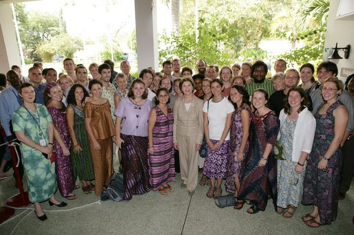 Laura Bush poses with Peace Corps volunteers Tuesday, Jan. 17, 2006, at the home of the U.S. Ambassador in Accra, Ghana, to mark the 45th anniversary of the Peace Corps. Ghana was the first assignment for the organization. White House photo by Shealah Craighead.